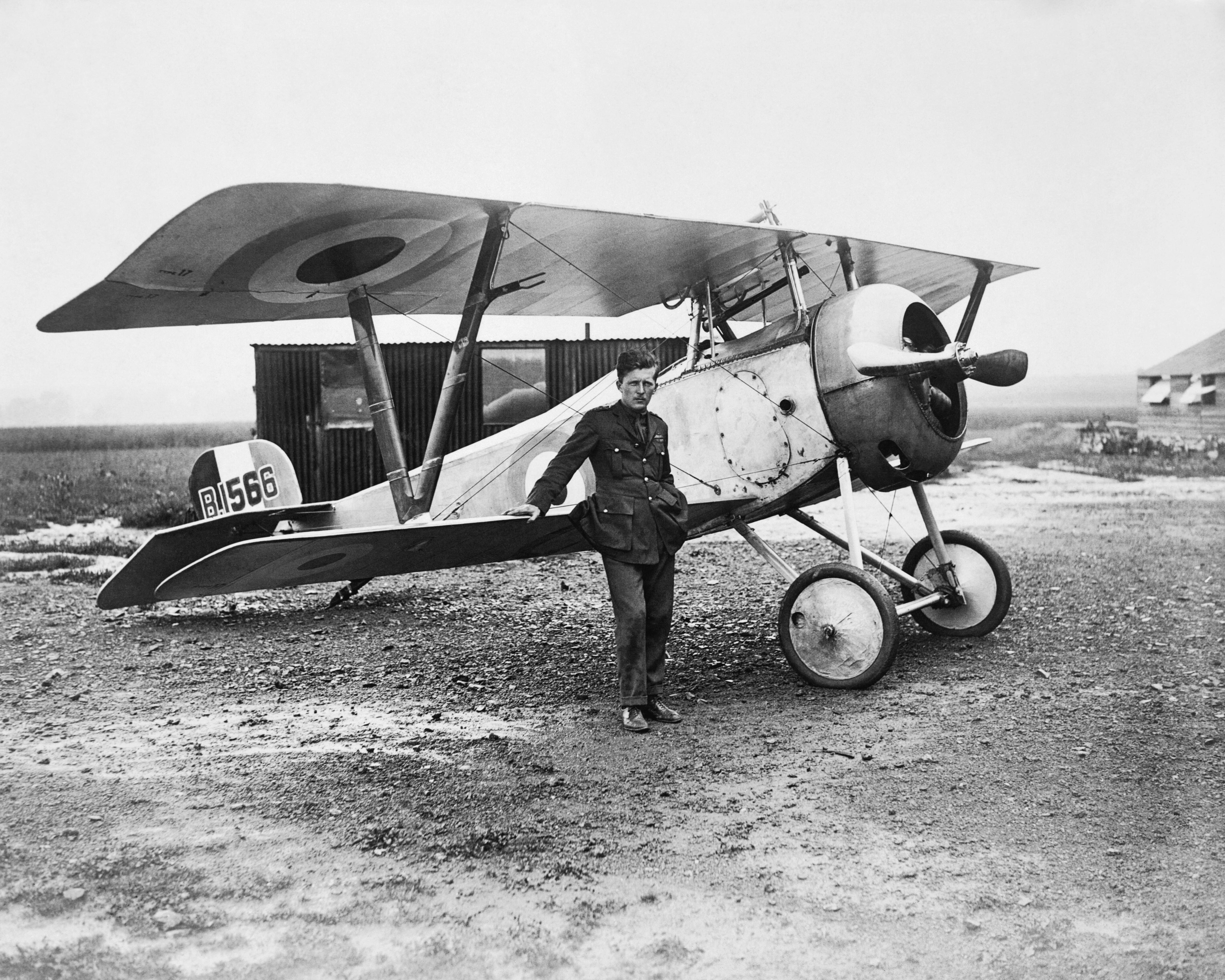 Lieutenant-Colonel W A 'Billy' Bishop VC, of No 60 Squadron, Royal Flying Corps, one of the leading fighter aces of the First World War, standing in front of his Nieuport 17 Scout at Filescamp, France